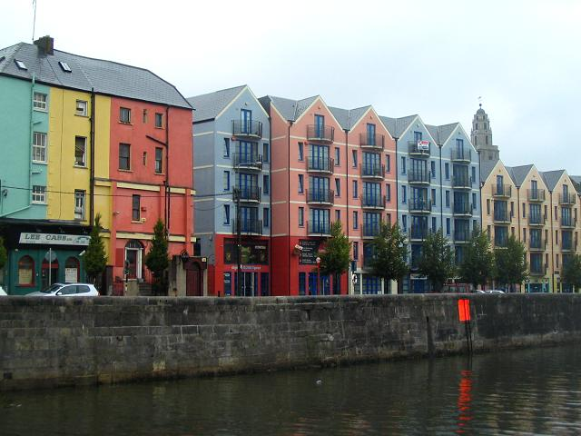 Farren's Quay, Cork. Taken from the Griffith Bridge.